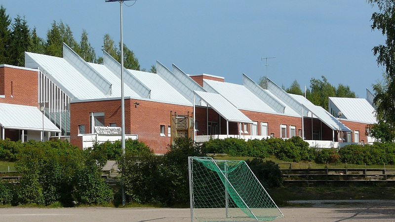 The comprehensive school of Suna on the centre of Espoo.